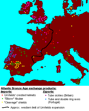 Atlantic Bronze Age. Map of exchanged items